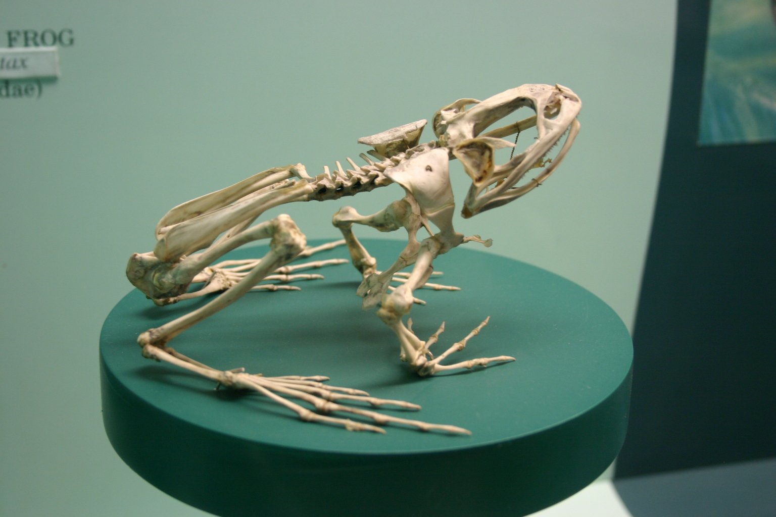 Skeleton of an American Bullfrog (Rana catesbeiana a.k.a. Lithobates catesbeianus). Visit my blog at